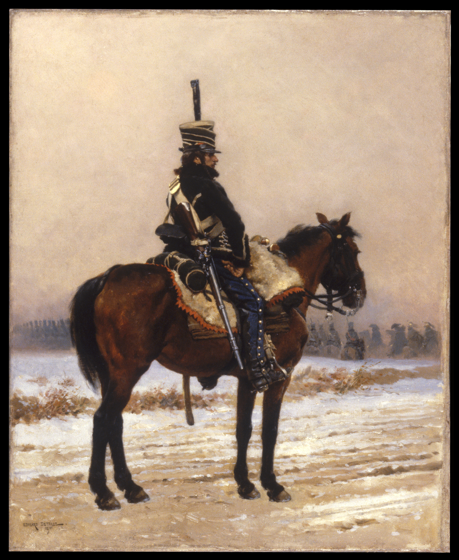 Like his teacher J.-L.-E. Meissonier, Detaille chose military subjects not only from his own era, but also from the reign of Napoleon I (1804-1814). These images recalled the past glories of France. In this winter scene set in the Napoleonic era, a member of the Eleventh Hussar regiment keeps watch.